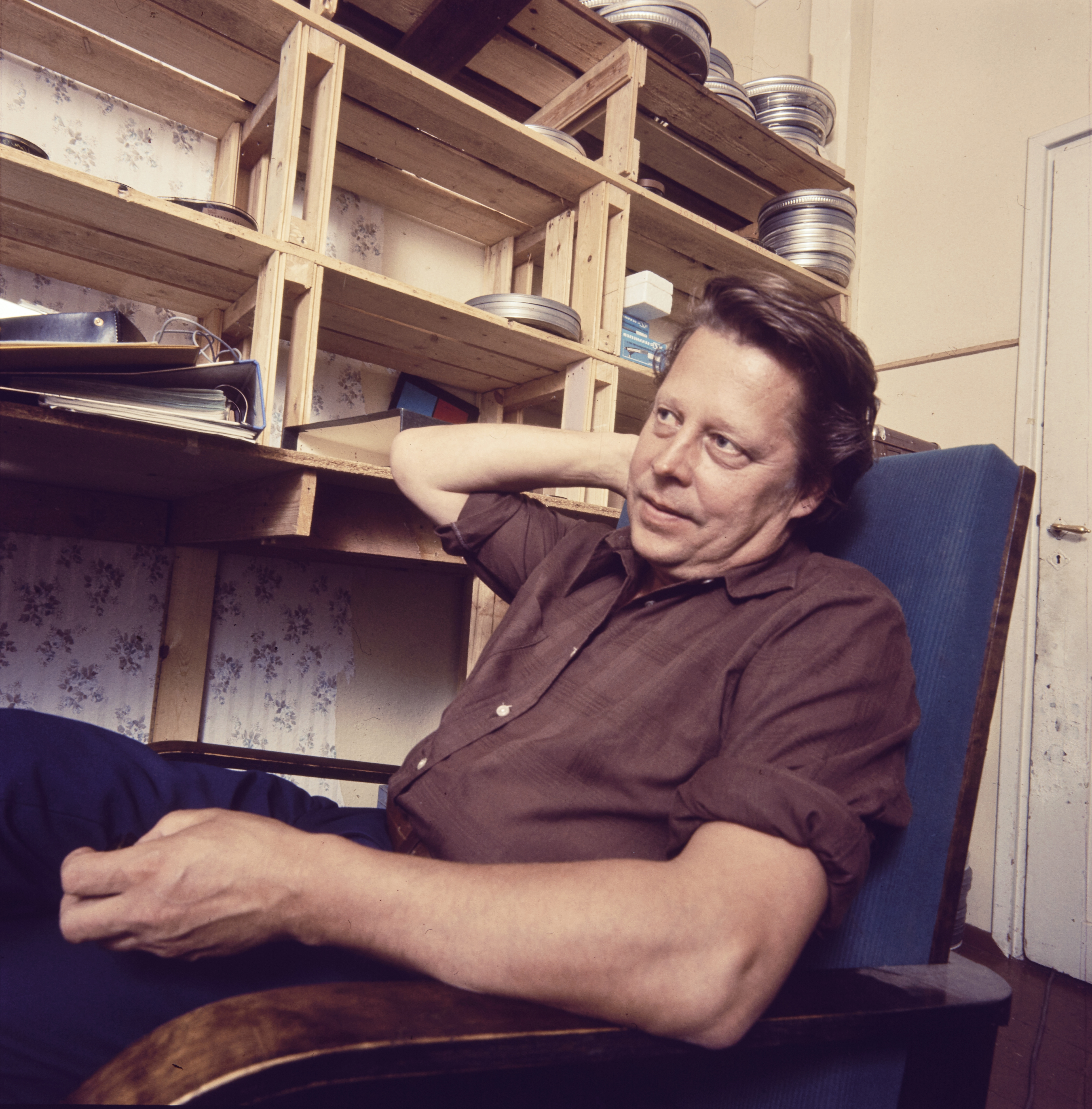 Photograph of the Finnish film director Rauni Mollberg (1929–2007).